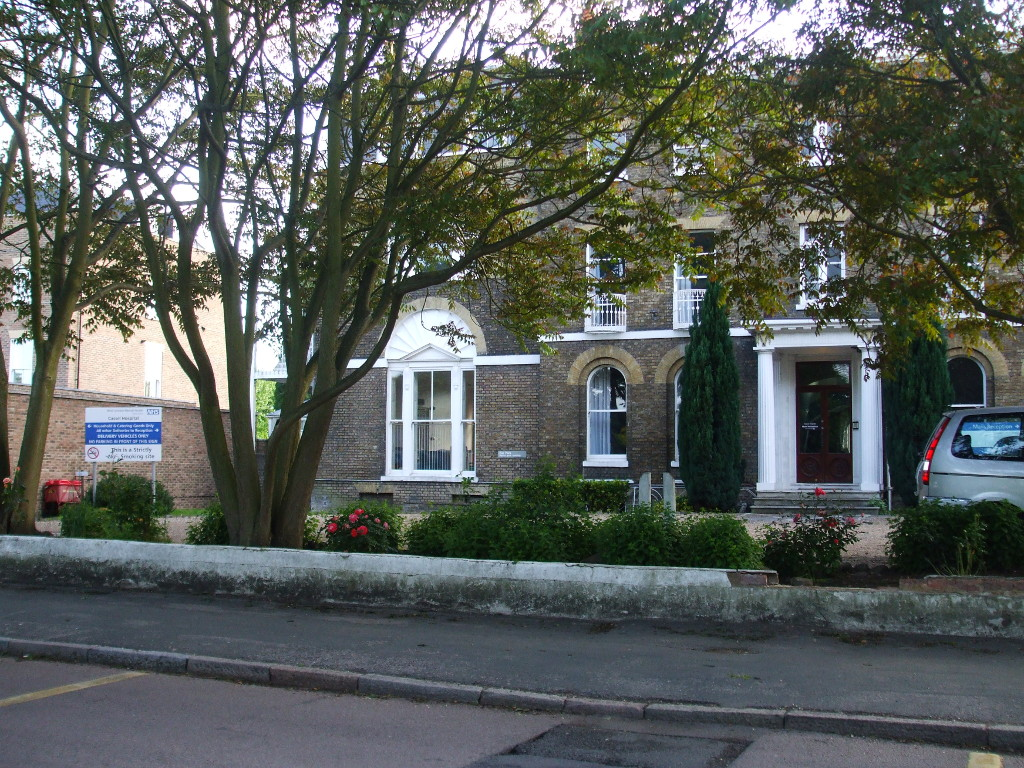 The Cassel Hospital, Ham Common. The Cassel Hospital was founded and endowed by Ernest Cassel in England in 1919 initially for the treatment of "shell shock" victims. Originally in Penshurst, Kent, it moved to Stoke-on-Trent during World War II before moving to Ham in 1948. The Hospital building was originally a late 18th-century house known as Morgan House after its owner, philanthropist and writer, John Minter Morgan. In 1863 it became home to the newly-married Prince Robert of Orléans, Duc de Chartres. In 1879 it became the West Heath School for young ladies. The school moved to Sevenoaks, Kent in the 1930s, and the building became the Lawrence Hall Hotel until its purchase by the Cassel Foundation in 1947.